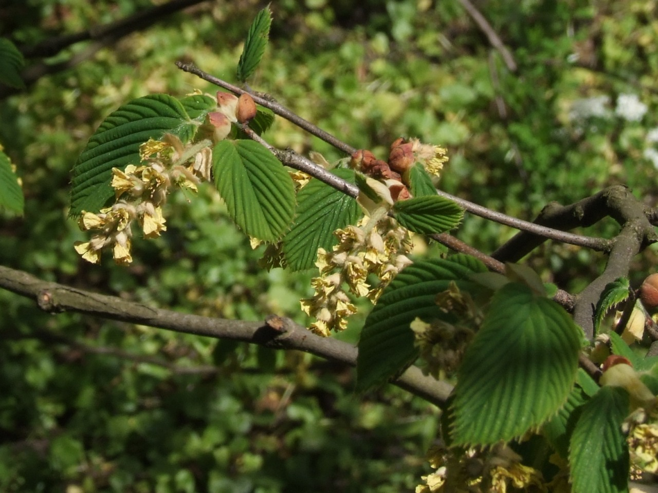 Corylopsis spicata